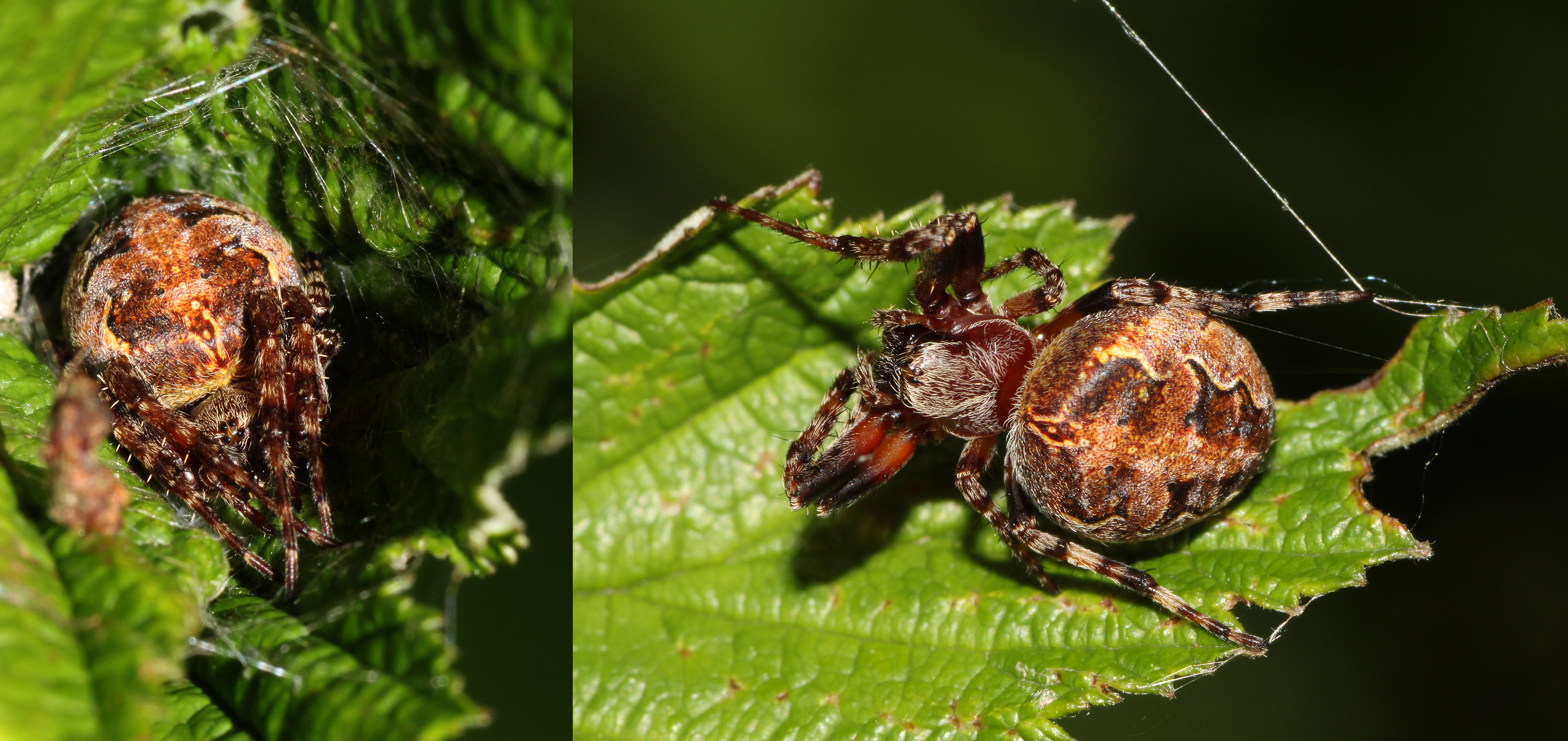 Larinioides patagiatus, Family: Araneidae, Location: Germany, Ulm, Gögglingen